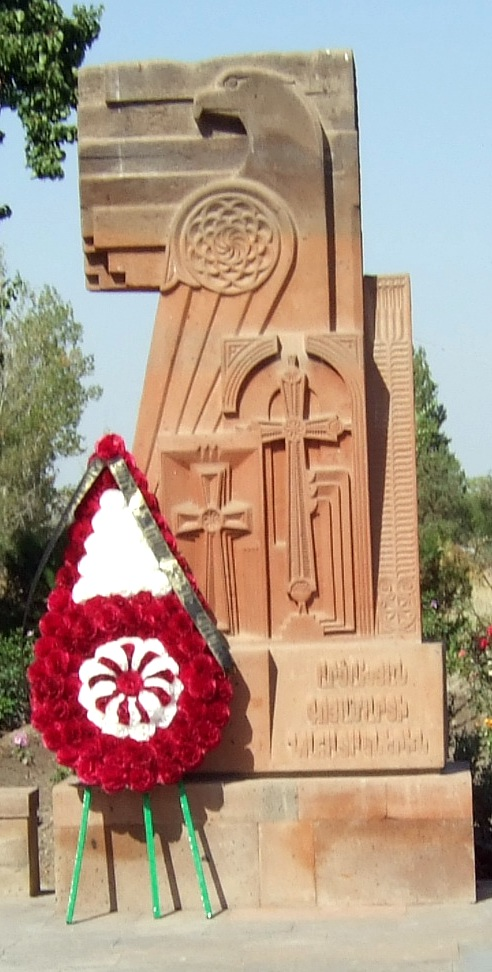 Khachkar near Sardarapat Memorial 59/3